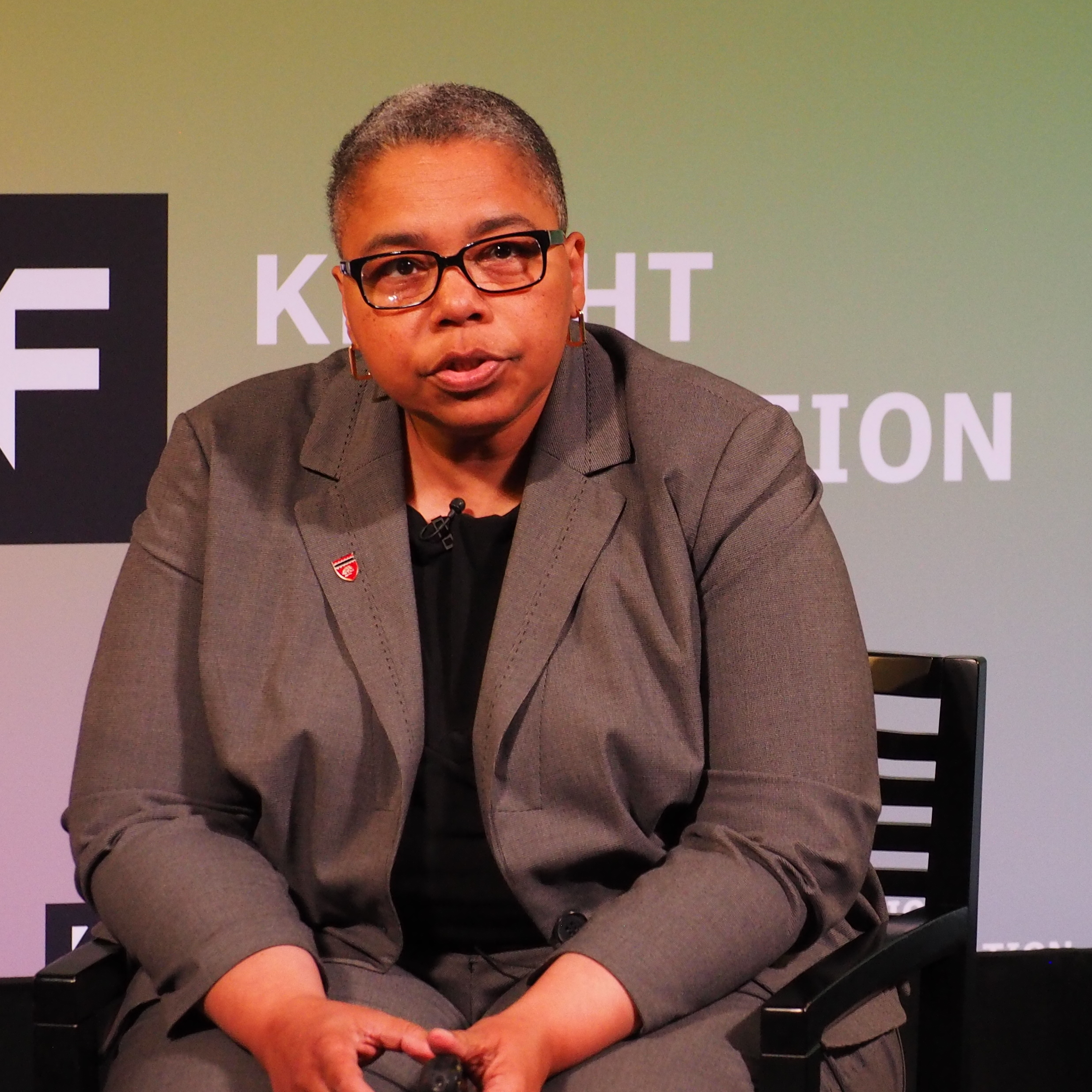 Latanya Sweeney takes part in a panel discussion at a Knight News Challenge event at the Paley Center for Media in New York City on November 16, 2017.